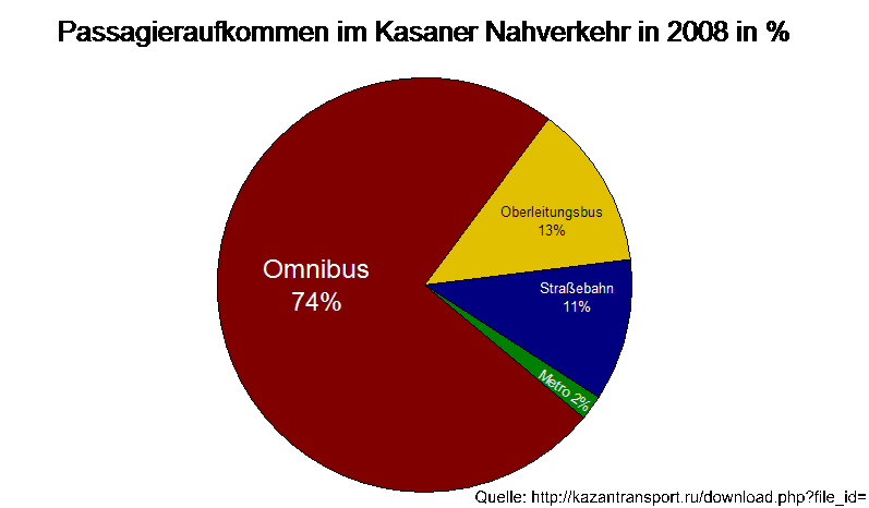 Diagram showing the distribution of passengers between different kinds of public transport in the city of Kazan in 2008 (german)